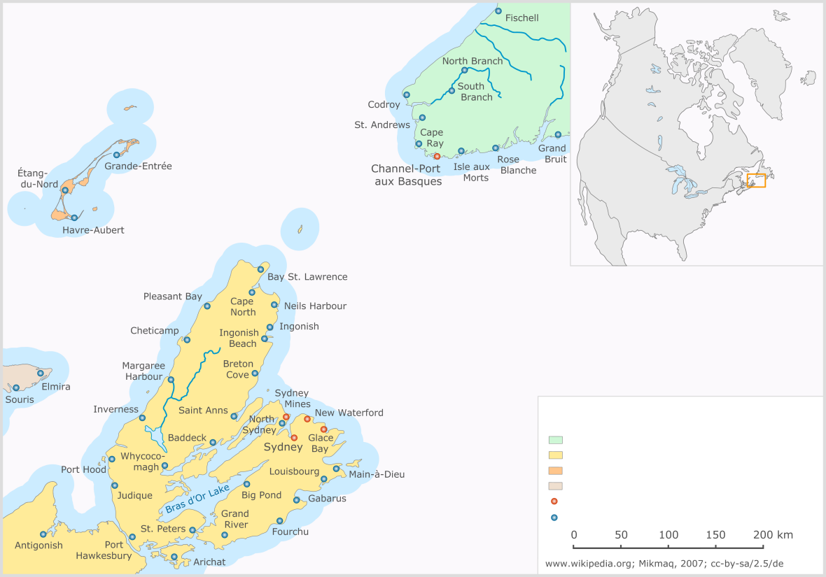 Cape Breton Island, raw version